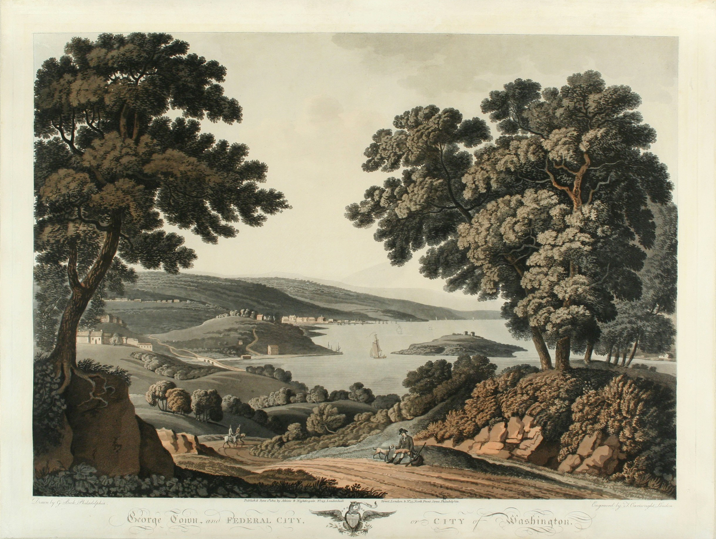 A view of the Potomac River, Analostan (now Roosevelt) Island, the bridge over Rock Creek and, in the distance, some buildings of the new Federal City. The vantage point is near the intersection of present-day Wisconsin Avenue and R Street, NW.